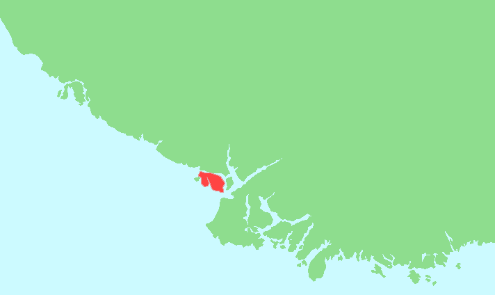 Locator map of Hidra, Vest-Agder, Norway